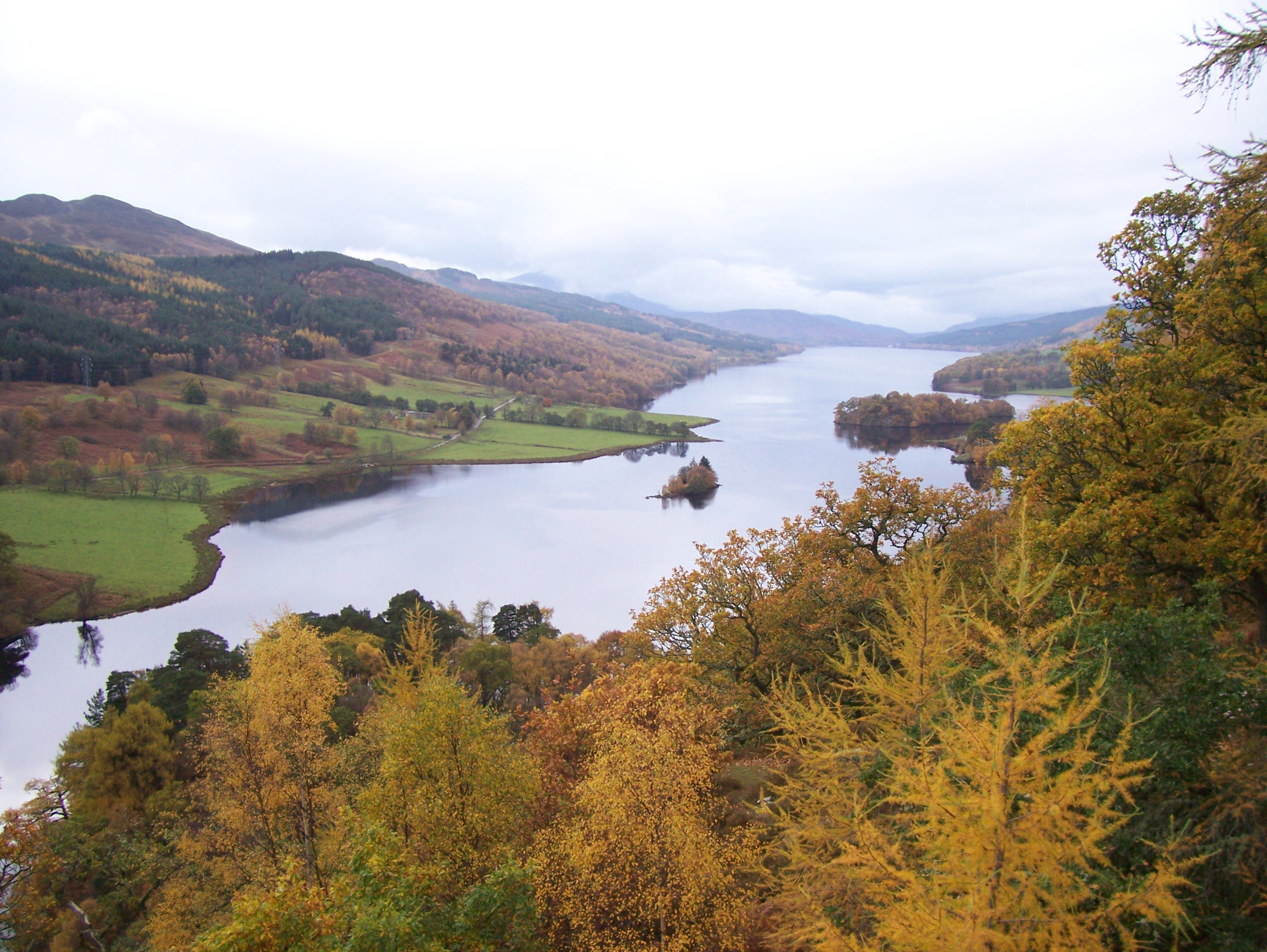 Queen's View. Queen's View, Loch Tummel, Loch Tummel.